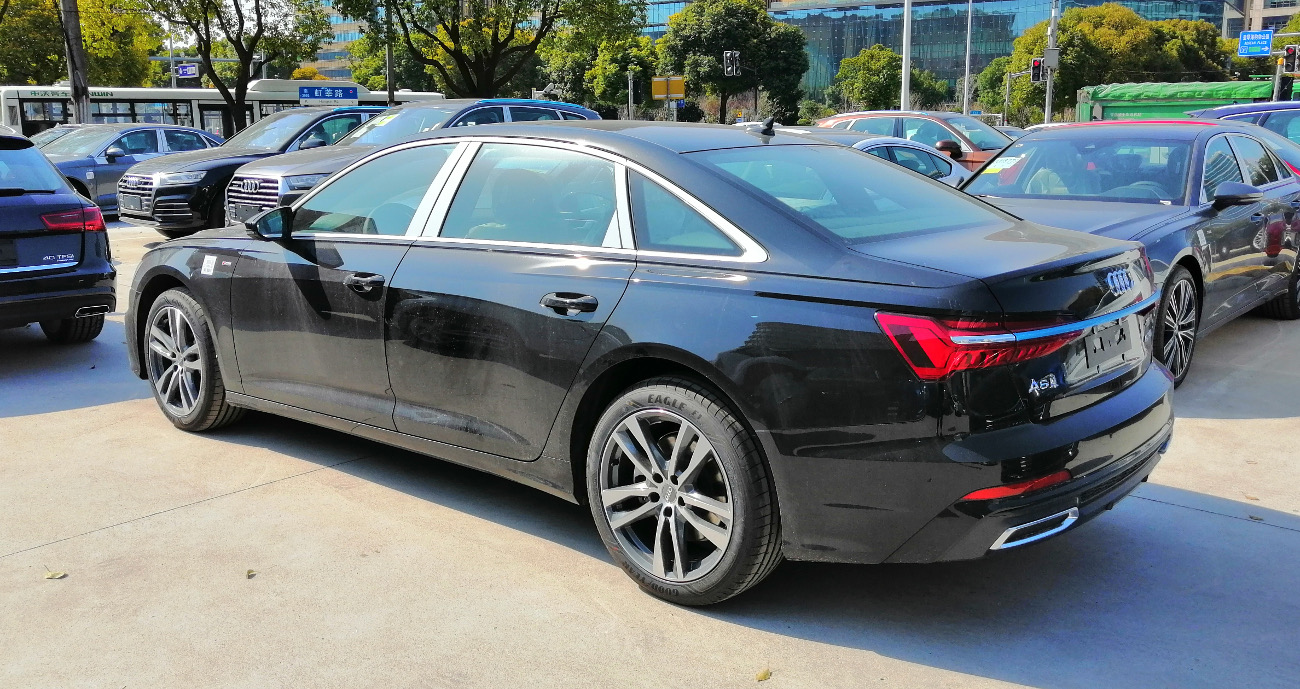 Audi A6L C8 photographed in Shanghai, China.